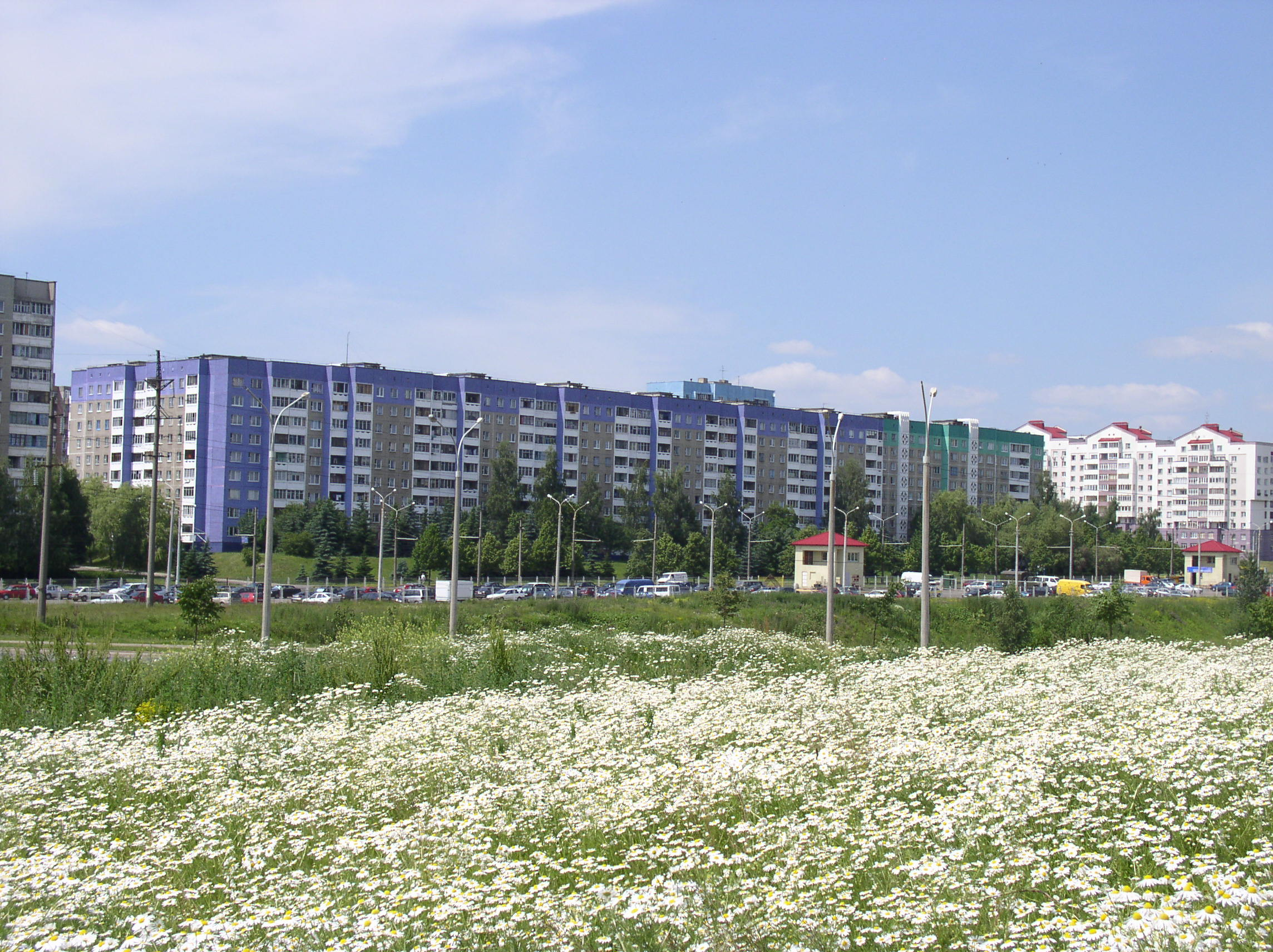 Tsimashenka street, 14. Minsk, Belarus.